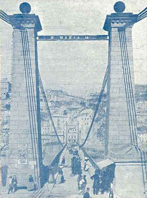 Suspension bridge of Porto / bridge D. Maria II, view from Vila Nova de Gaia.